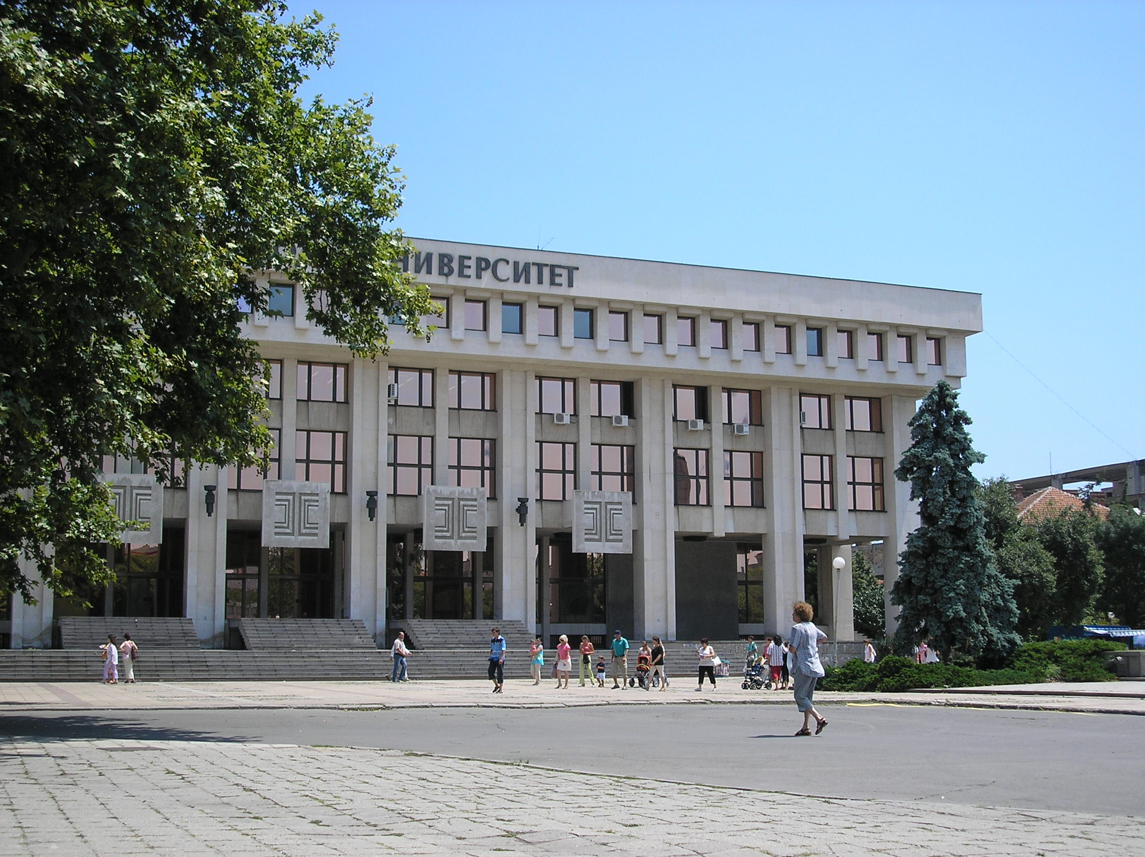 Burgas Free University